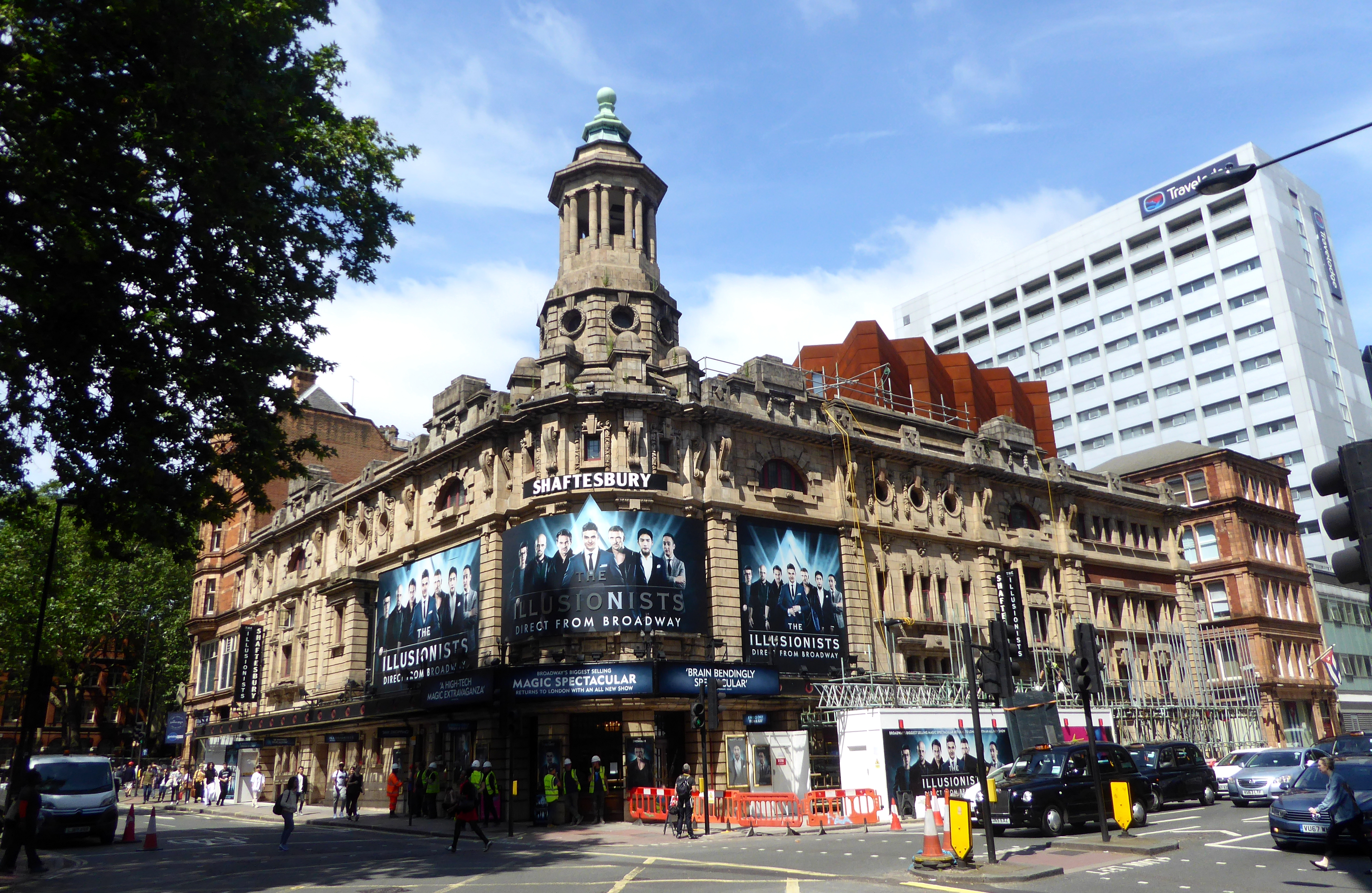 Shaftesbury Theatre in Bloomsbury